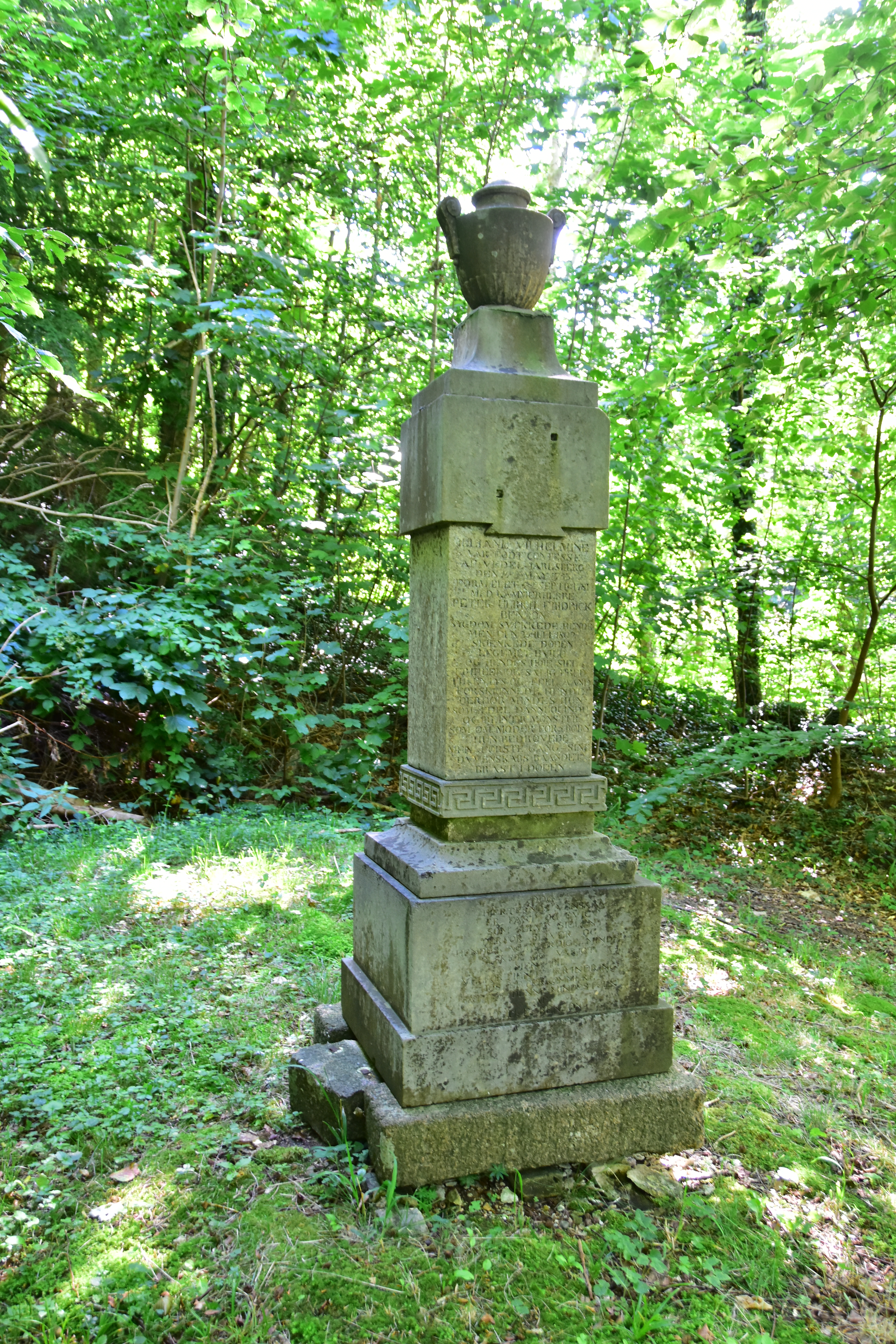 Tombstone at Tirsbæk manor over Juliane Wilhelmine, b. Wedell-Jarlsberg